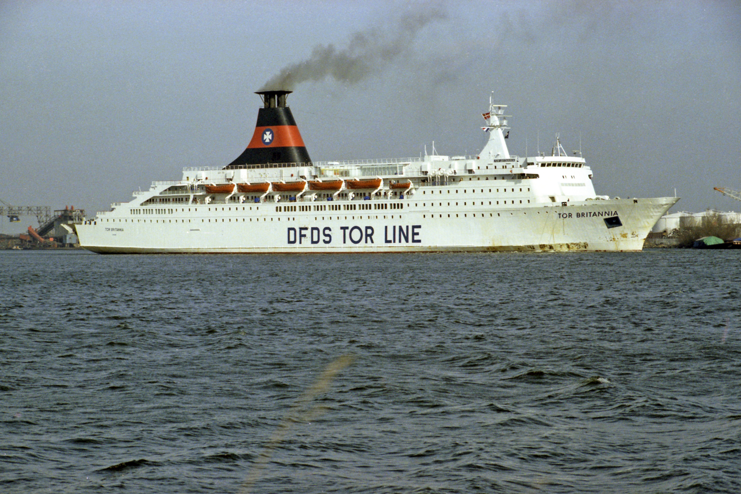 The ferry Tor Britannia in Amsterdam's harbor in 1975.